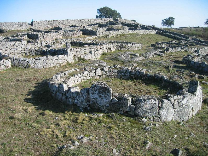 Hill Fort - Citânia of Sanfins - Paços de Ferreira - Portugal